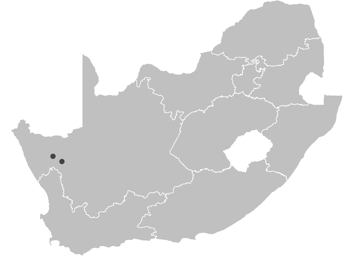 Distribution map of Haemanthus dasyphyllus Snijman